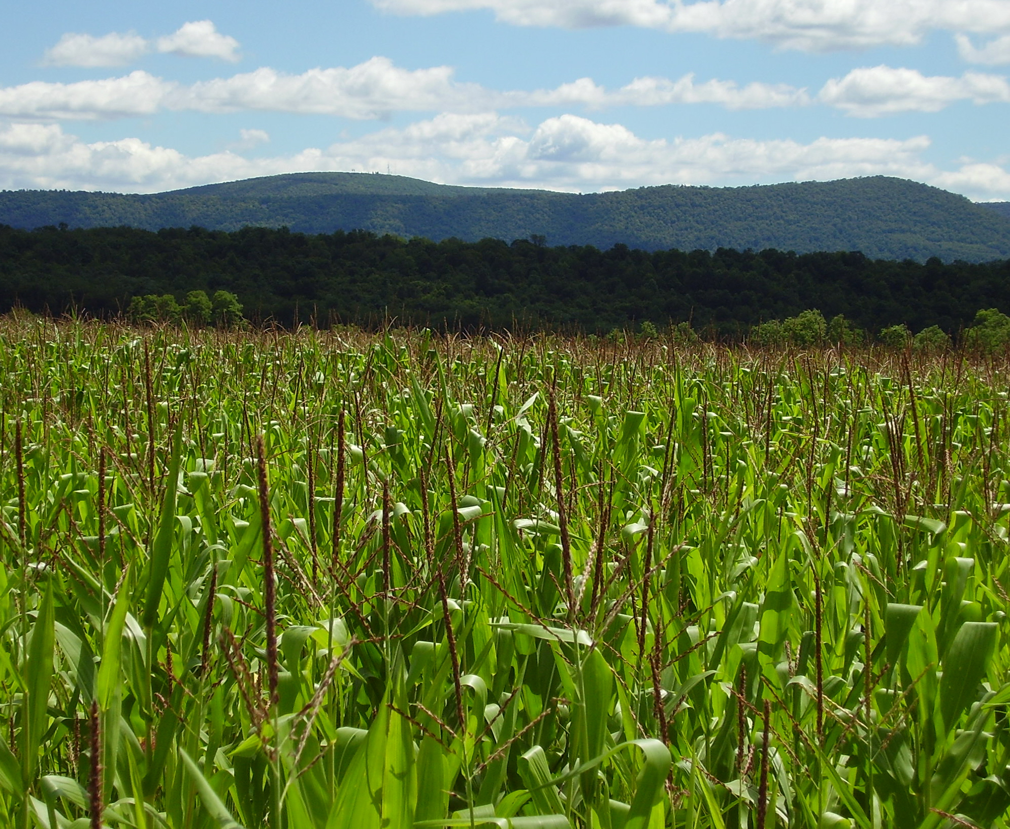 Williamsburg Mountain from the west in Blair County, Pennsylvania.